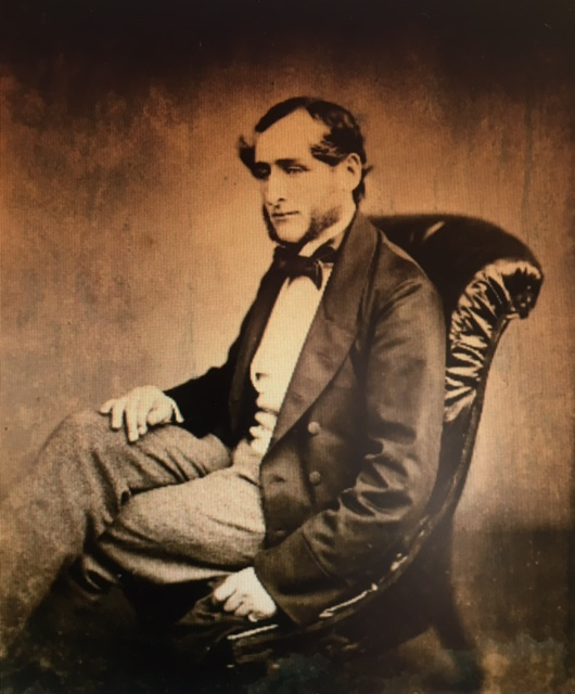 Portrait image of Sir James Gell